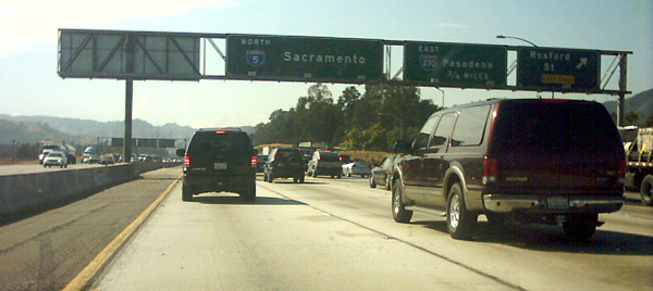 The Golden State Freeway section of Interstate 5, as photographed on Friday, July 2, 2004, at about 5:00 PM local time. The view was northbound, in the northeastern San Fernando Valley, near the interchange with Interstate 210 in Mission Hills. Photographed and uploaded by user Coolcaesar